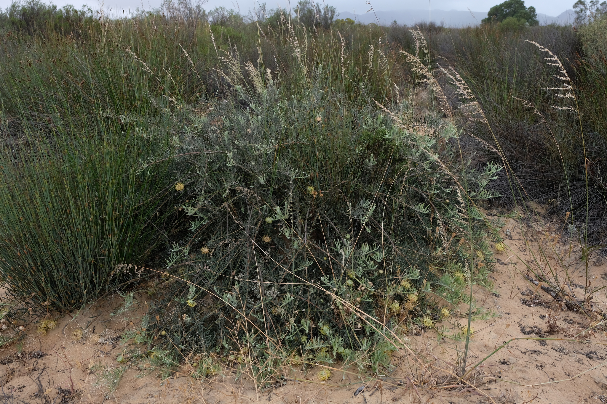 Habit of the Redelinghuys pincushion Leucospermum arenarium, photographed by Nick Helme on 29 October 2018 at Piketberg County, Western Cape, South Africa